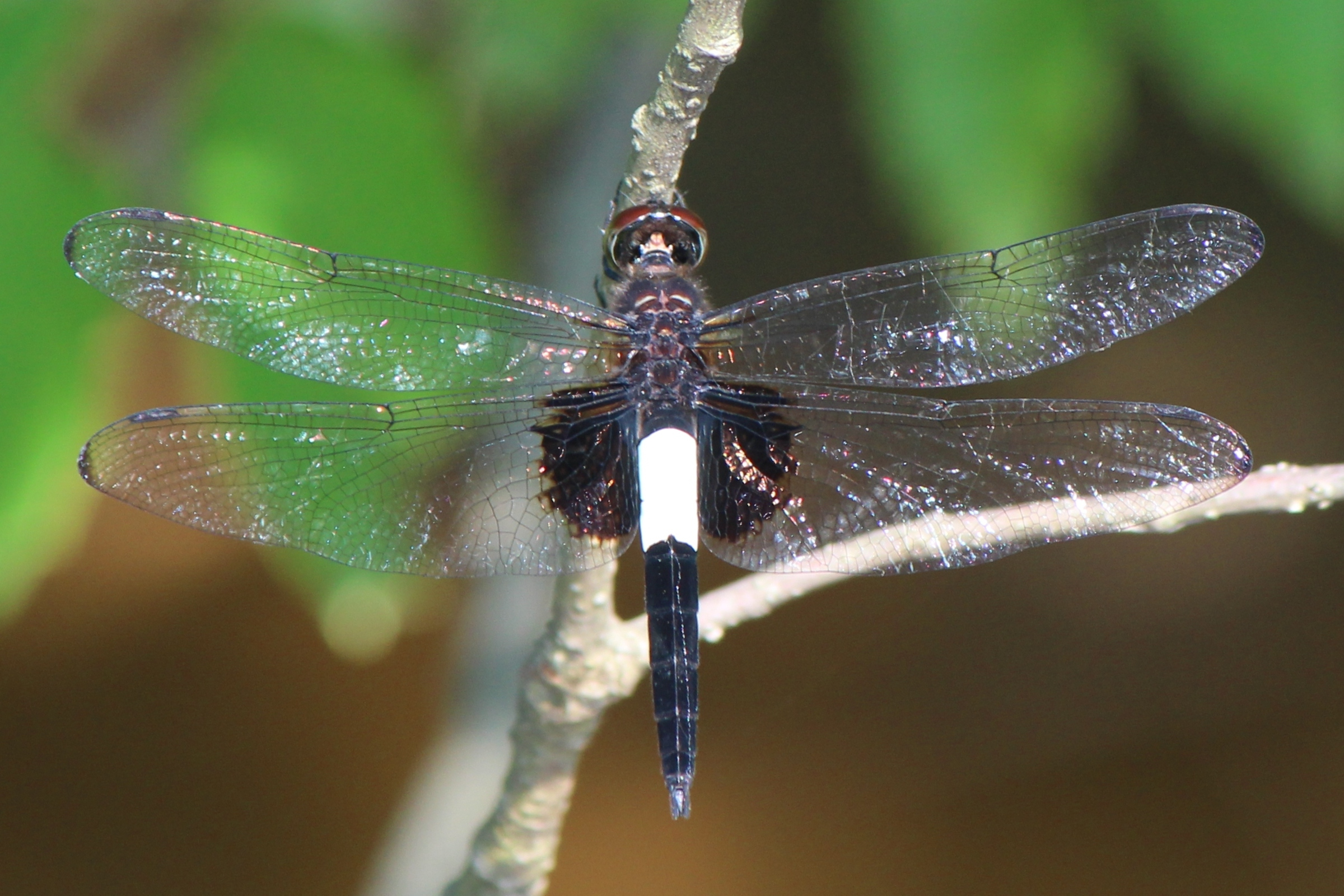 Pseudothemis zonata, male in Mie pref., Japan.